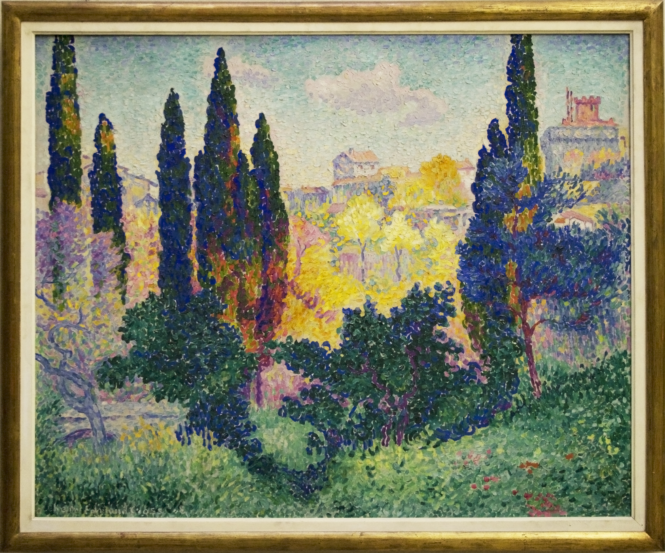 with frame